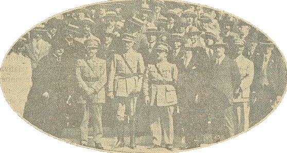 Inauguration ceremony of the electric trains at the Cascais Railway, in Portugal, on the 15th August 1926. This image was originally published in the Gazeta dos Caminhos de Ferro No. 928, of the 16th August 1926, and scanned by the Hemeroteca Municipal de Lisboa.